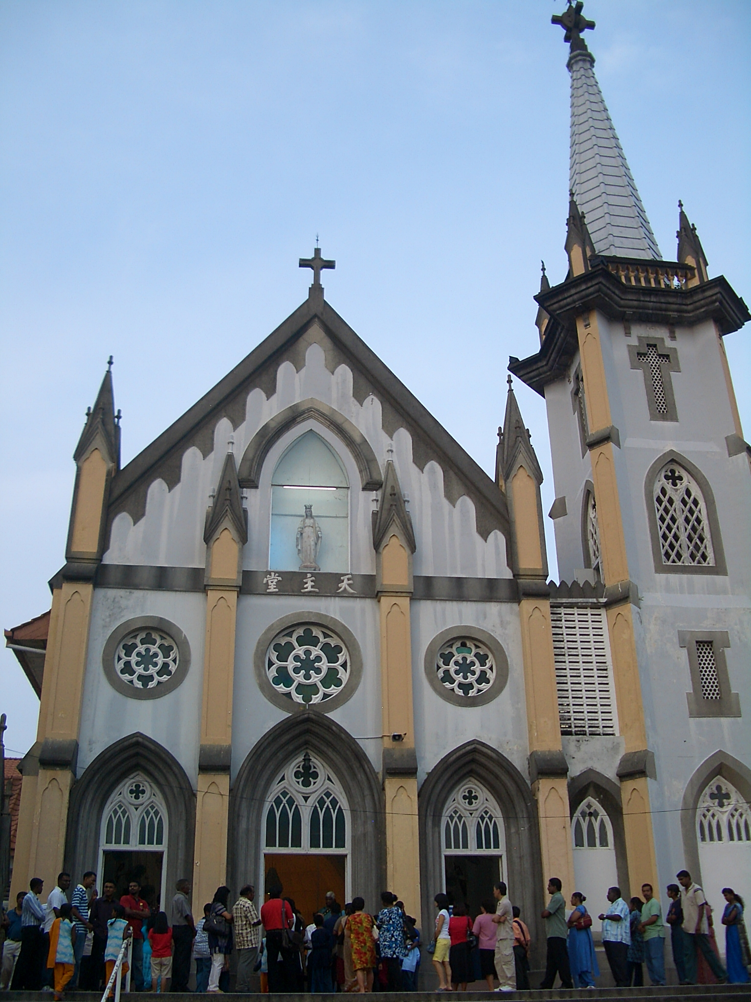 Service at the Feast of Visitation at the church of the same name in Seremban, Malaysia